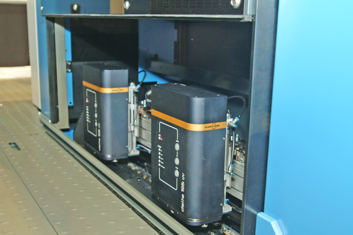 Inkjet imprinting modules for marking or coding of all sheets in a offset press